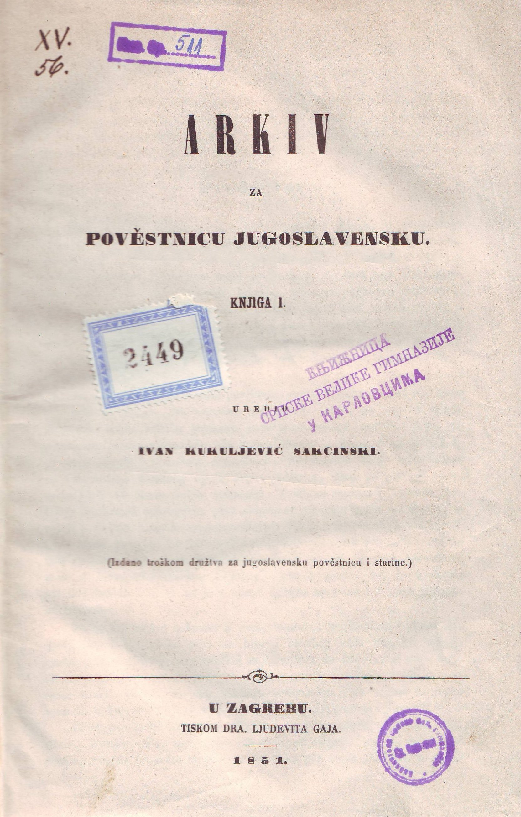 Cover of the first book of the historical journal Arkiv za povestnicu jugoslavensku for the year 1851. Srpski (latinica): Naslovna strana prve knjige istorijskog časopisa Arkiv za povestnicu jugoslavensku za 1851. godinu.